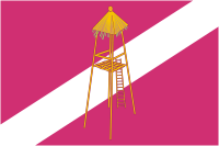 Sergievskoe (Krasnodar krai), flag